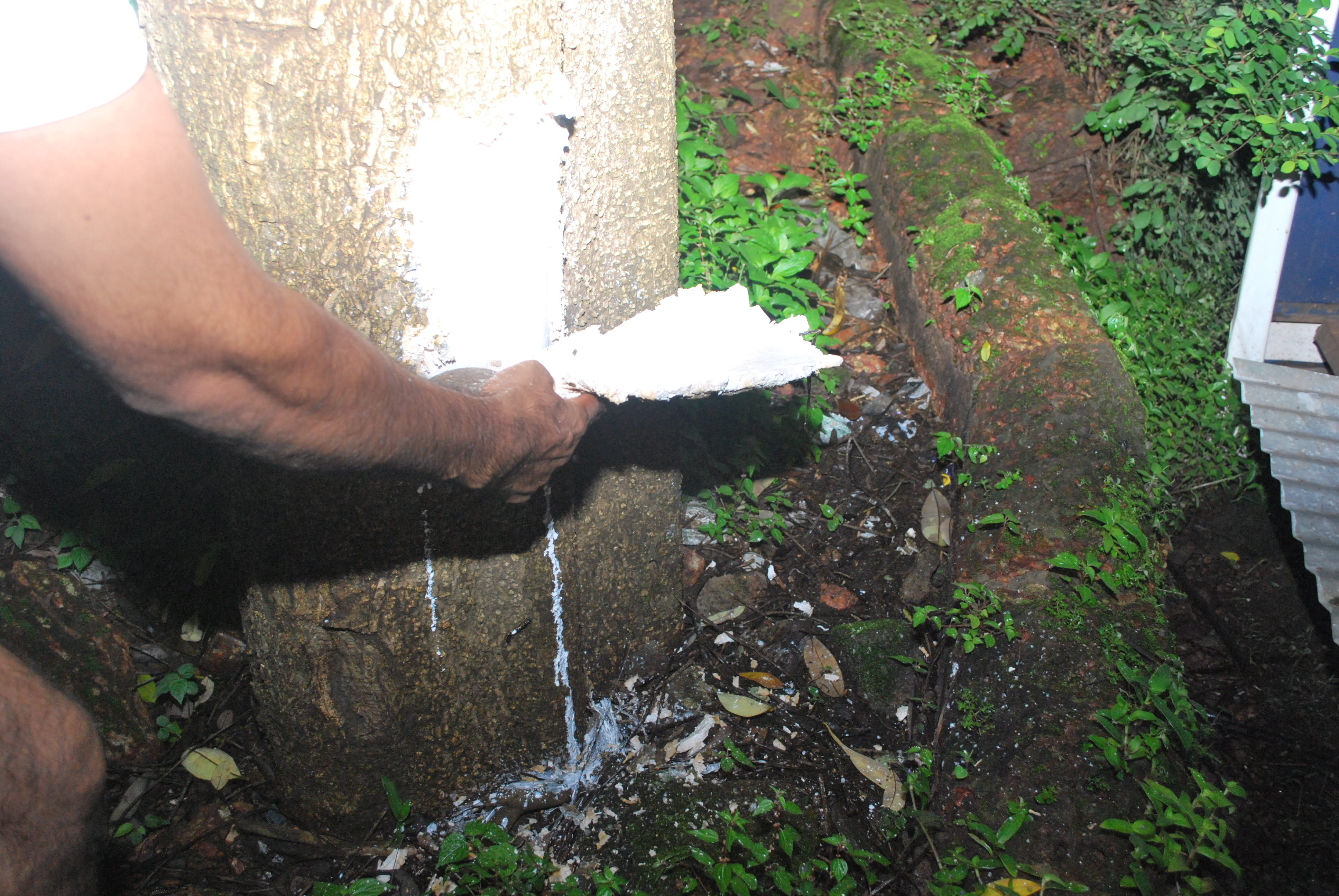 Medicinal Plant